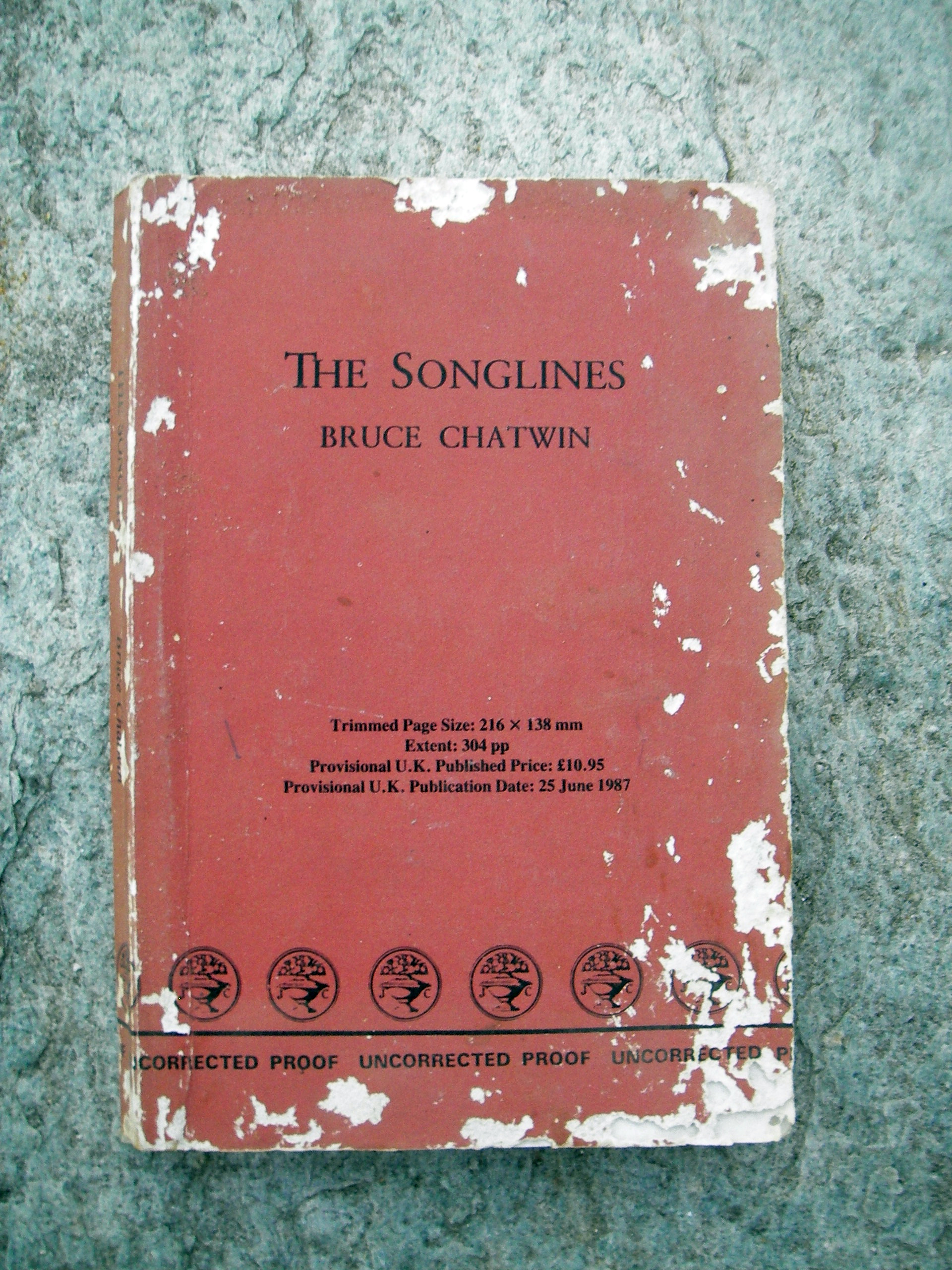 photo near Kardamyli, Mani, Greece, by R. de Salis, August 2009, of a Silverfish patina-ted un-edited proof copy of Bruce Chatwin's The Songlines, 1987 Rodolph (talk) 23:30, 19 October 2009 (UTC)